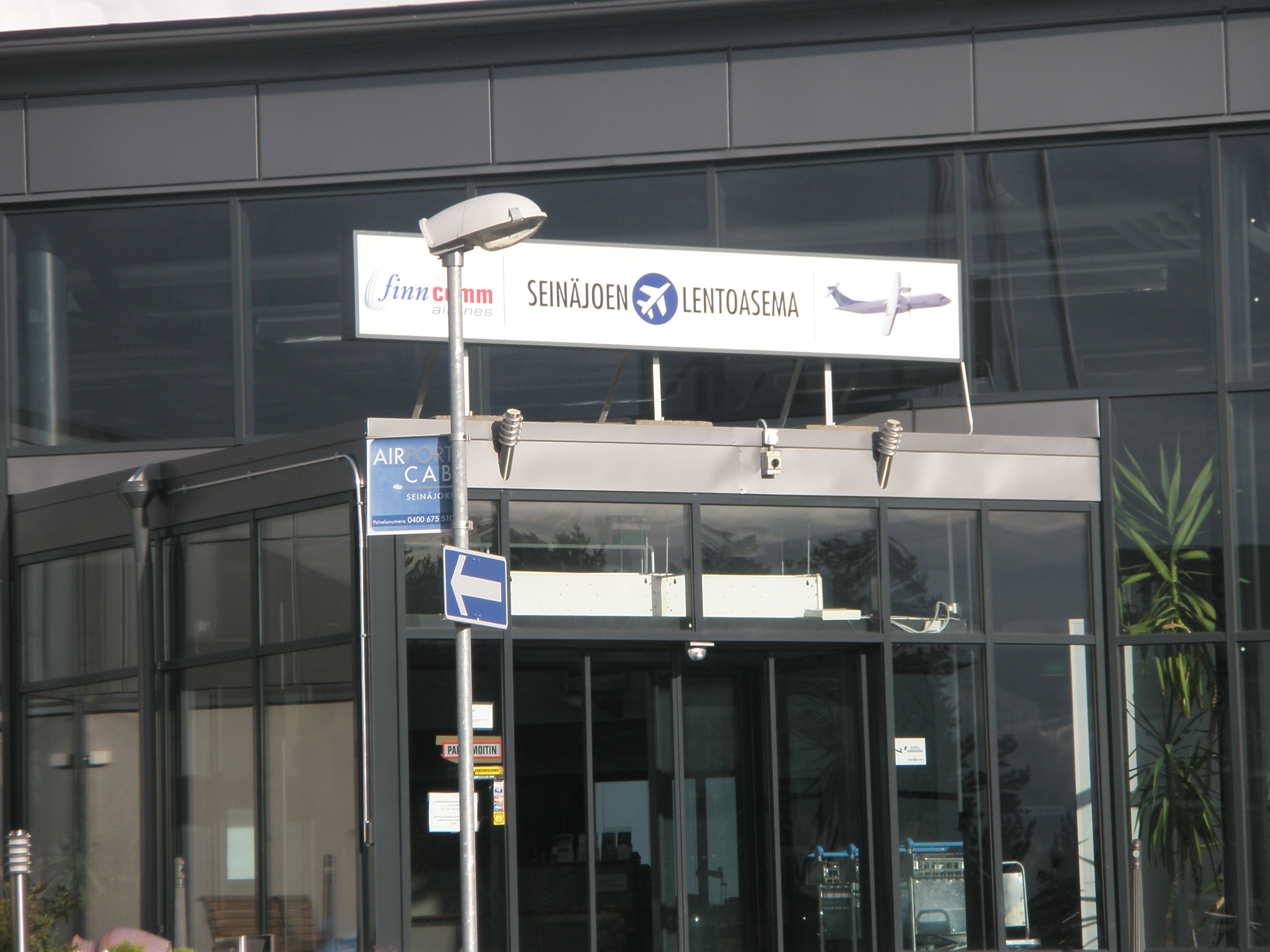 Seinäjoki Airport's terminal in 2008 in Ilmajoki, Finland